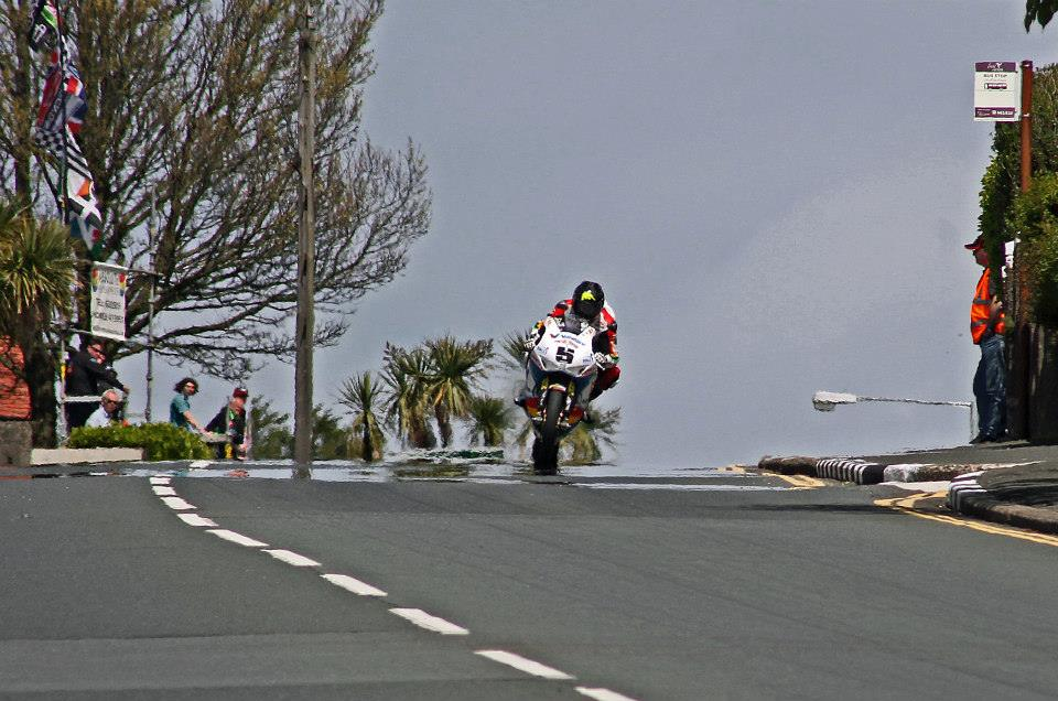 Bruce Anstey crests Bray Hill on his way to victory in the 2015 Isle of Man TT Superbike Race.